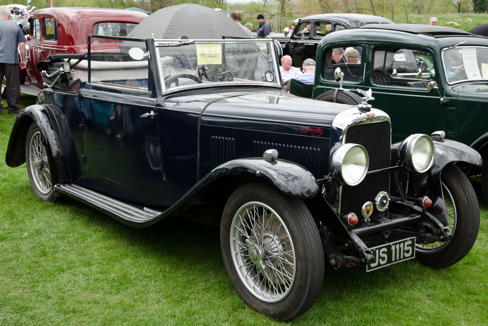 Alvis Firefly 12Catton Hall Classic Car Show 05/05/2013(DVLA) First registered 26 April 1933, 1479cc